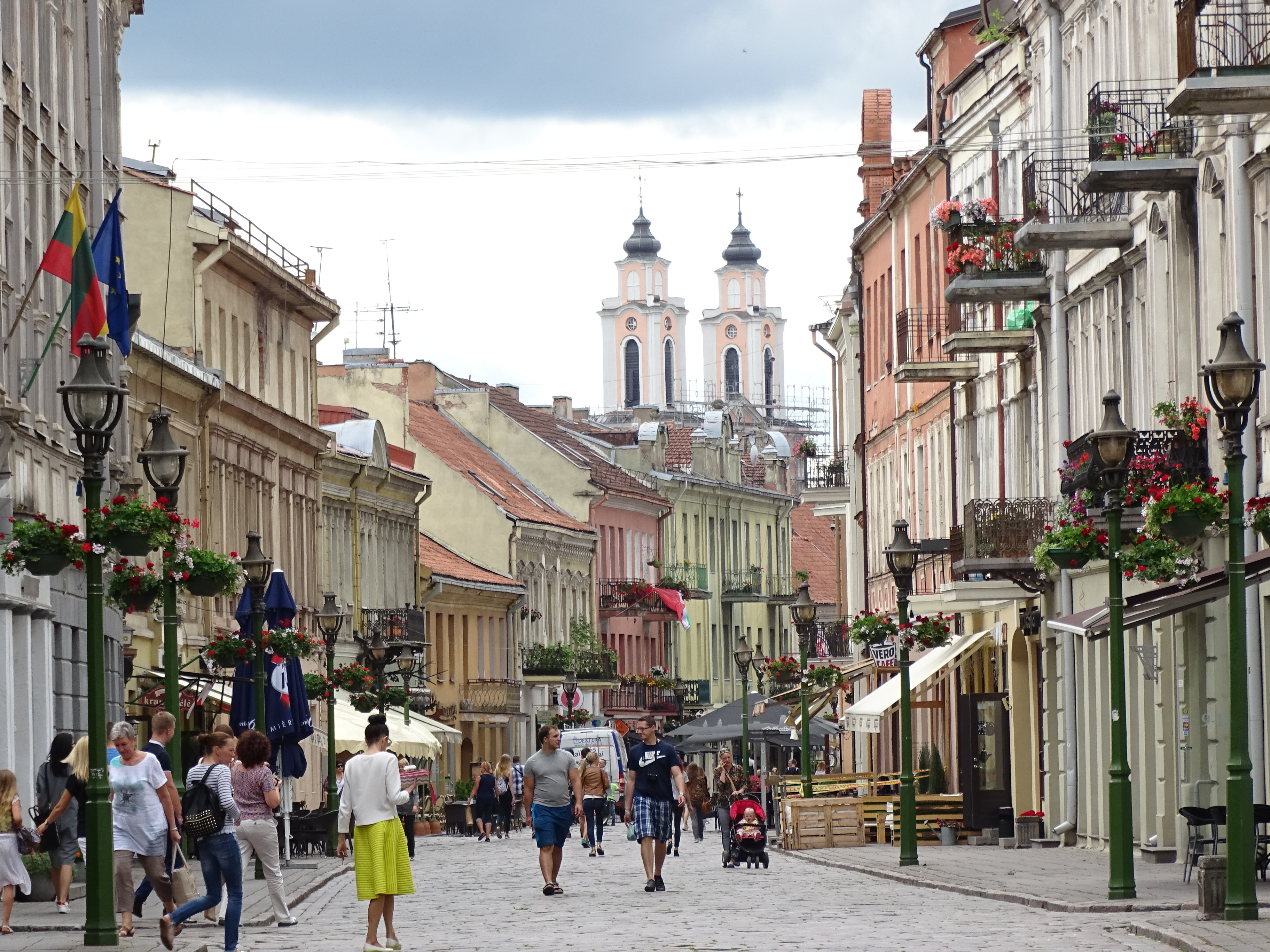 Street Scene along Vilniaus Gatve - Kaunas - Lithuania